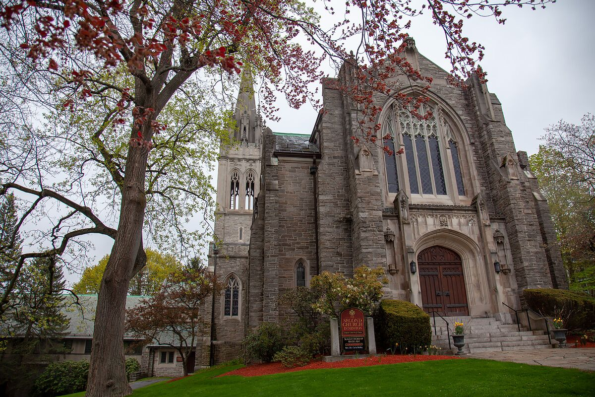 Photo of Second Church in Newton, 60 Highland Street, taken by John Borchard, May 2019